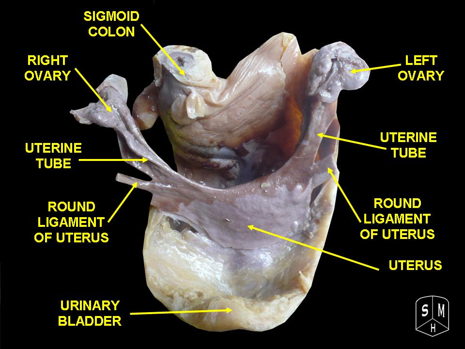 Uterus